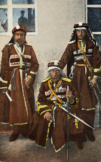 Post card of Ibrahim Pasha and his two sons. They represent the Cherkes ethnic group, part of the Caucasian migration to the Ottoman Empire from the newly conqured Caucasus by the Imperial Russian Army in the 19 th. century. They were later settled in the Arab provinceses of Syria, Jordan, and Palestine. Many have since migrated to Europe, the Americas, and other locations around the world. They served in the Army, especilly during the French Mandate, others lived in towns and the country-side.